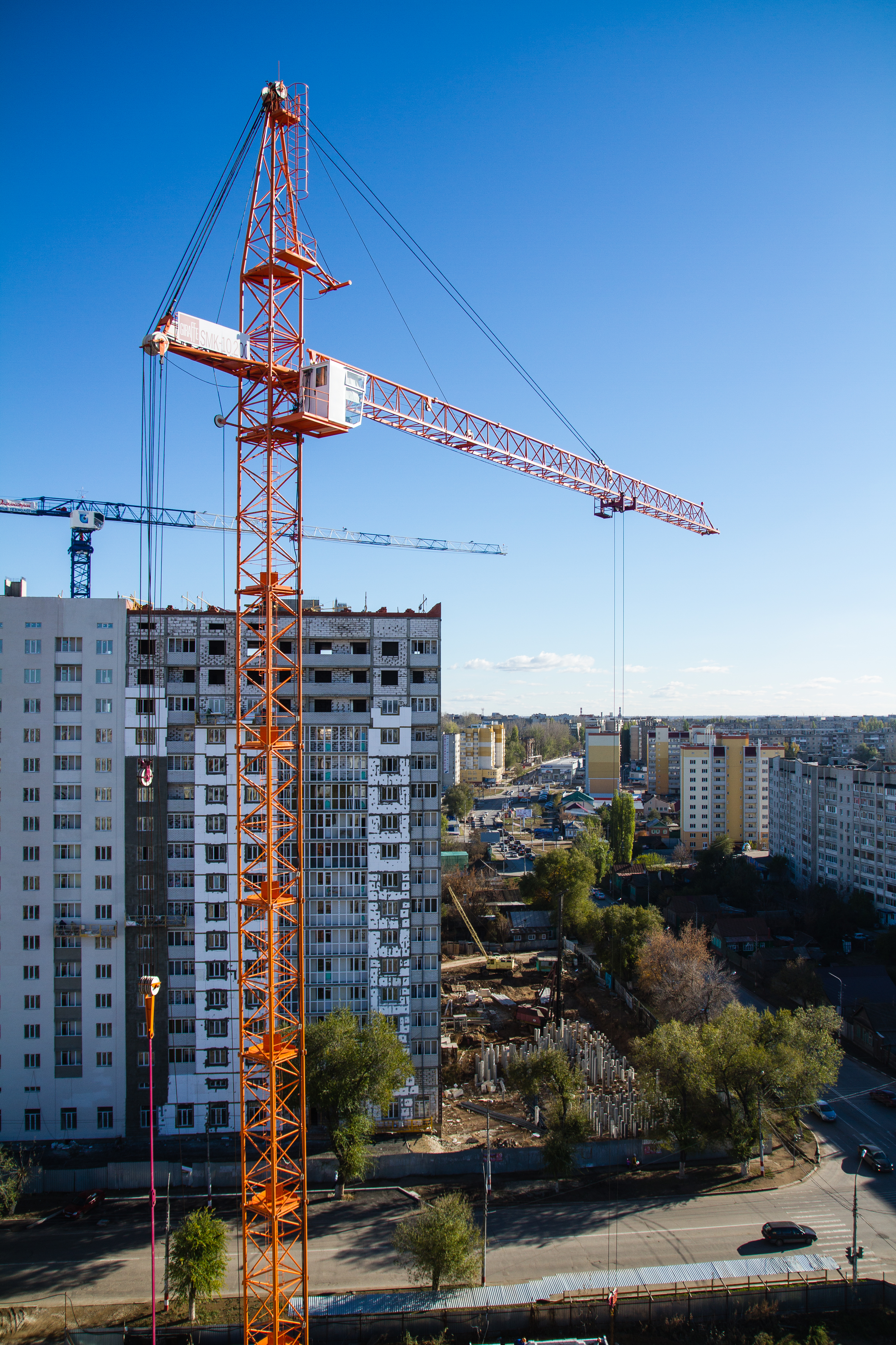 SMK-10.200